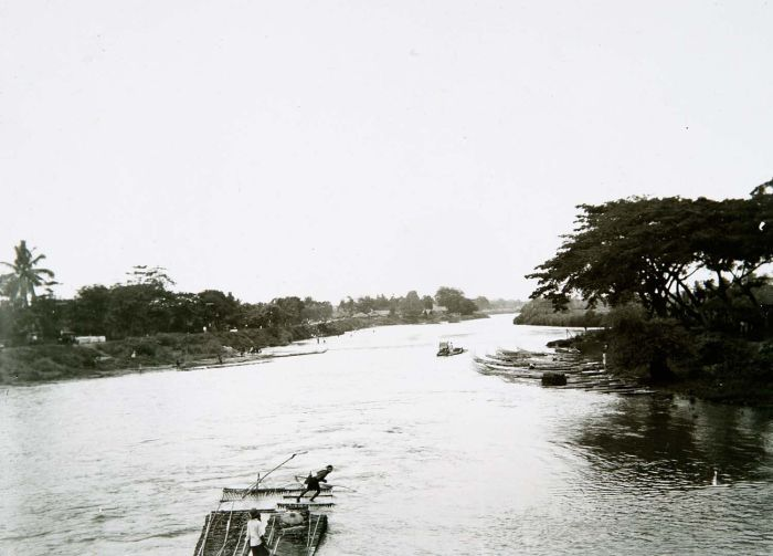 Bamboo rafts in the 'Mookervaart'